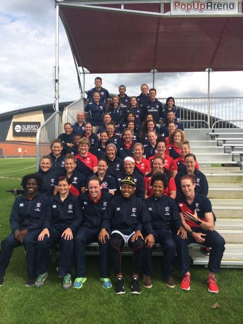 2014 USA Rugby Team with Peter Steinberg